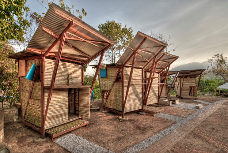 Dormitories at an orphanage in Noh Bo, Thailand (2008/-09). Architects: The Norwegian firm/organisation TYIN tegnestue Architects (not formally established as an architecture firm until 2010)Pasi Aalto, Andreas G. Gjertsen, Yashar Hanstad, Magnus S. Henriksen and Erlend Bauck Sole. Line Ramstad (landscape architect)